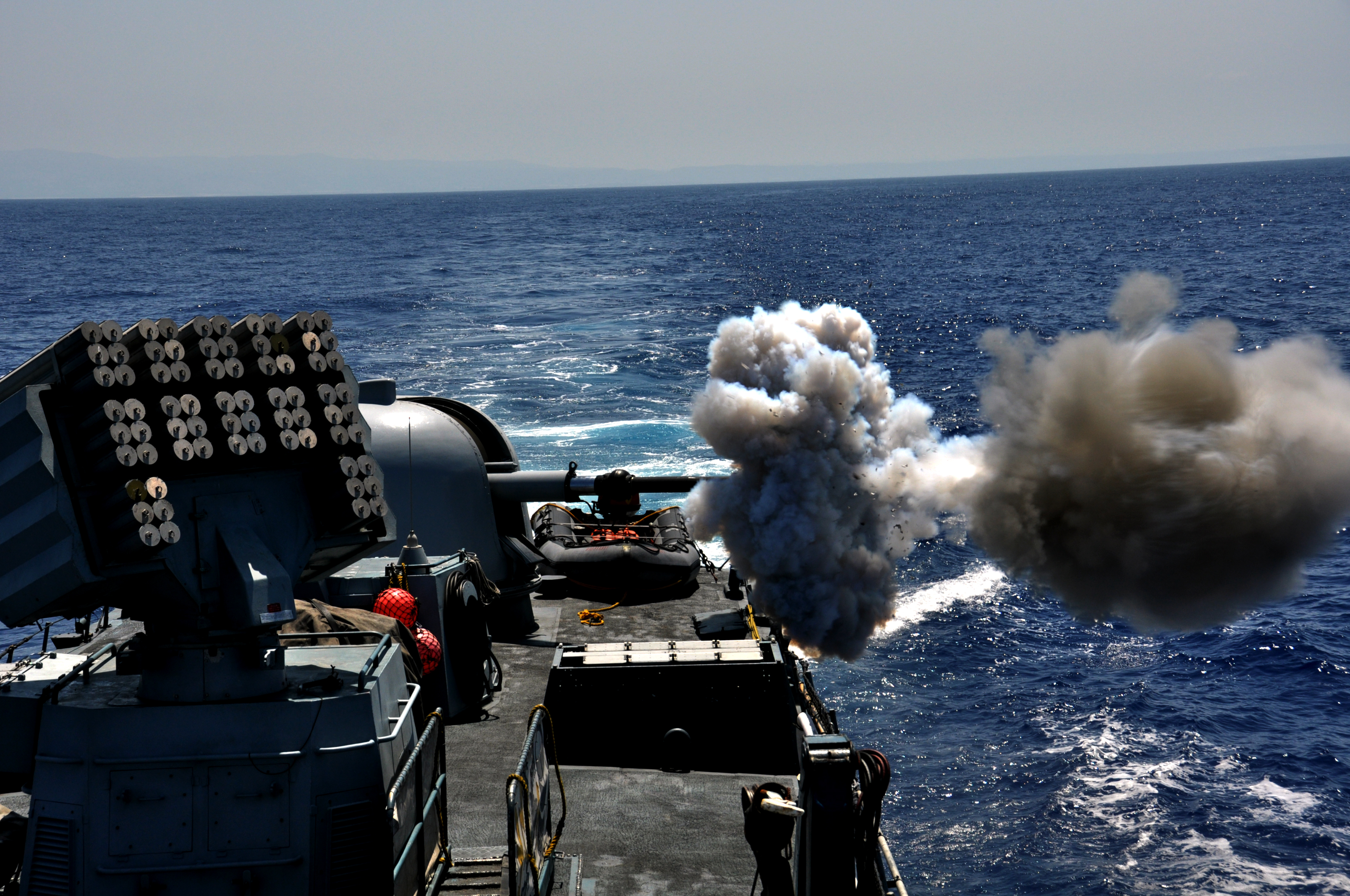 A Sa'ar 4.5-class Corvette of the Israeli Navy fires its cannons during a naval exercise off the coast of Israel. The Israel Defense Forces Facebook The Israel Defense Forces blog Follow us on Twitter